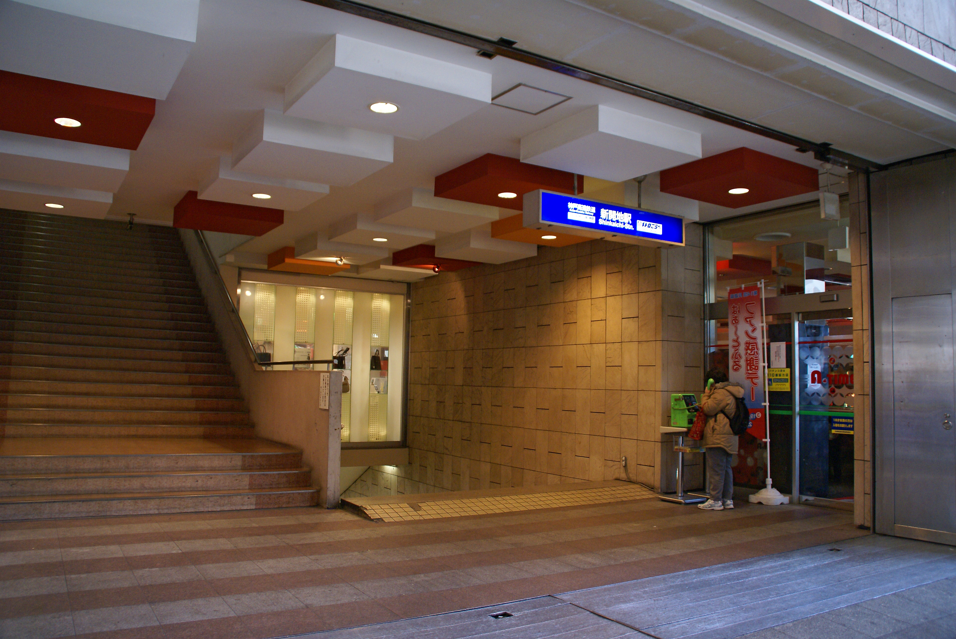 Shinkaichi Station in Kobe, Hyogo prefecture, Japan